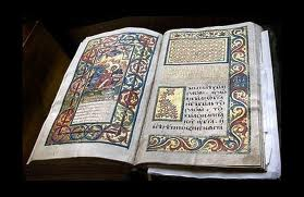 Peresopnytske Gospel (1556-1561)